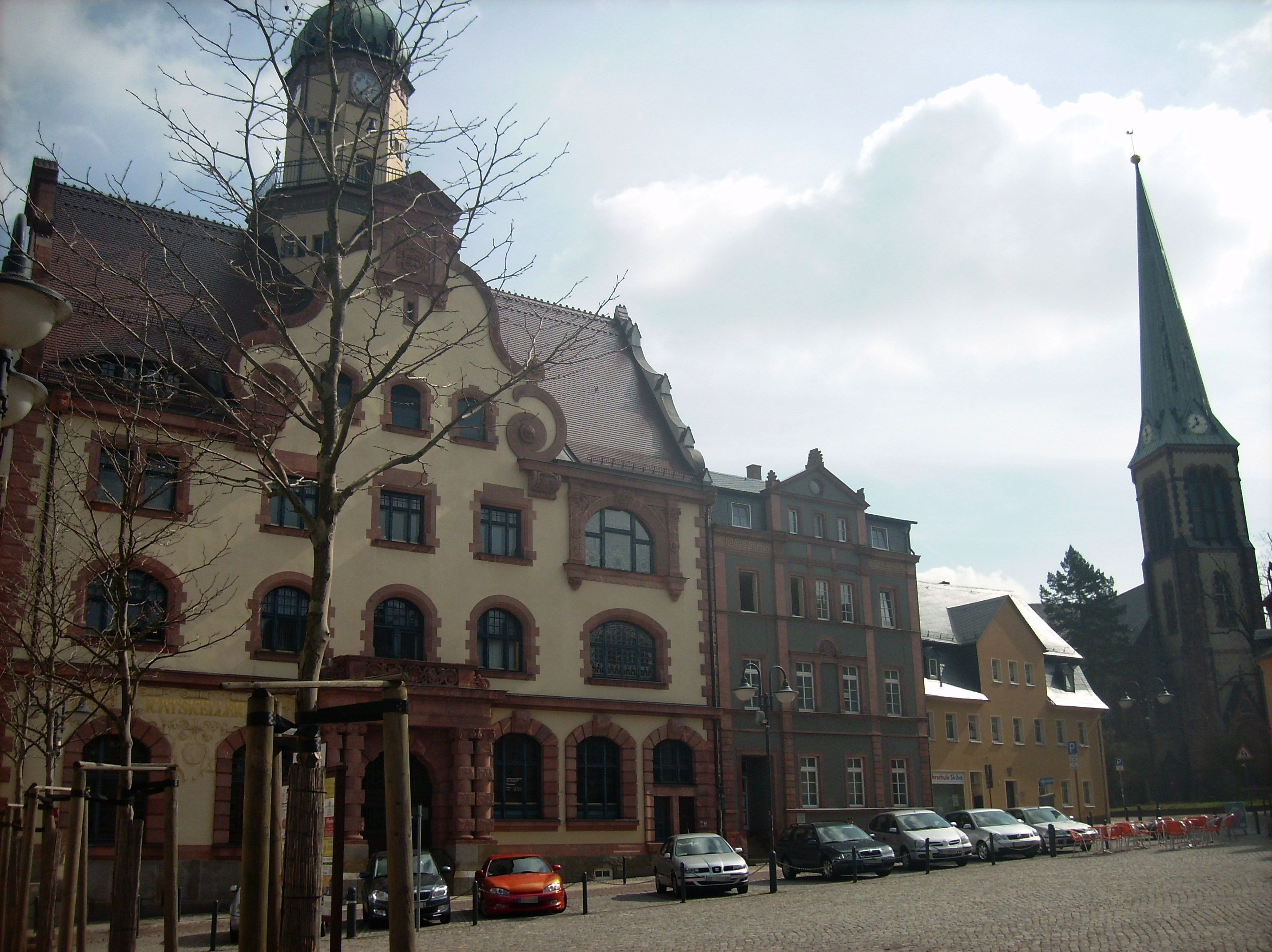 Market square in Geringswalde (Mittelsachsen district, Saxony) with town hall, old town hall and Martin Luther Church